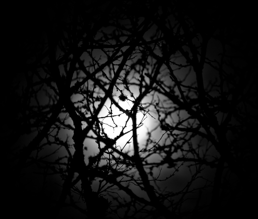 The moon seen through branches